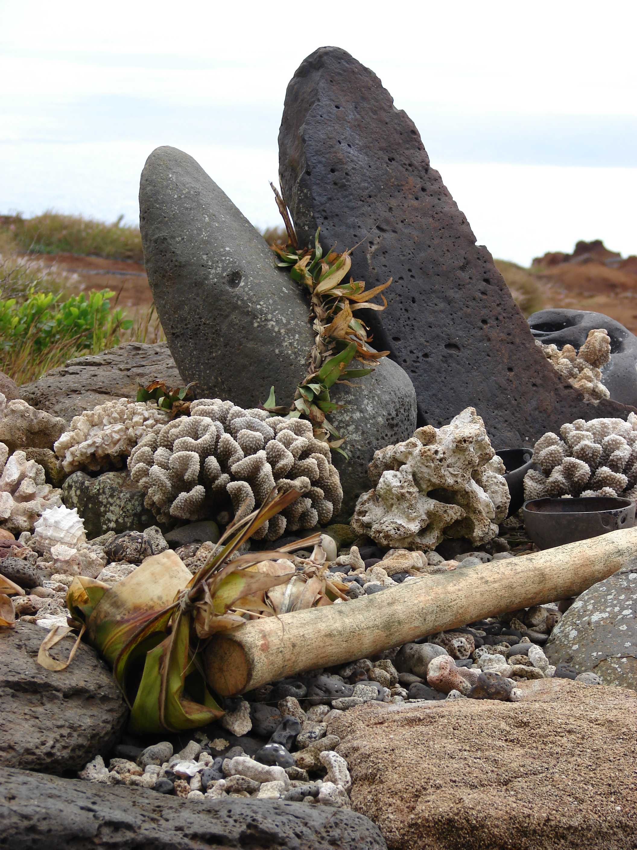 Cordyline fruticosa (Ti leaf, ki) Rain koa at Puu Moaulanui, Kahoolawe, Hawaii. February 09, 2008 [ #080209-2628 Image Use Policy Also known as Cordyline terminalis. Also placed in Agavaceae.